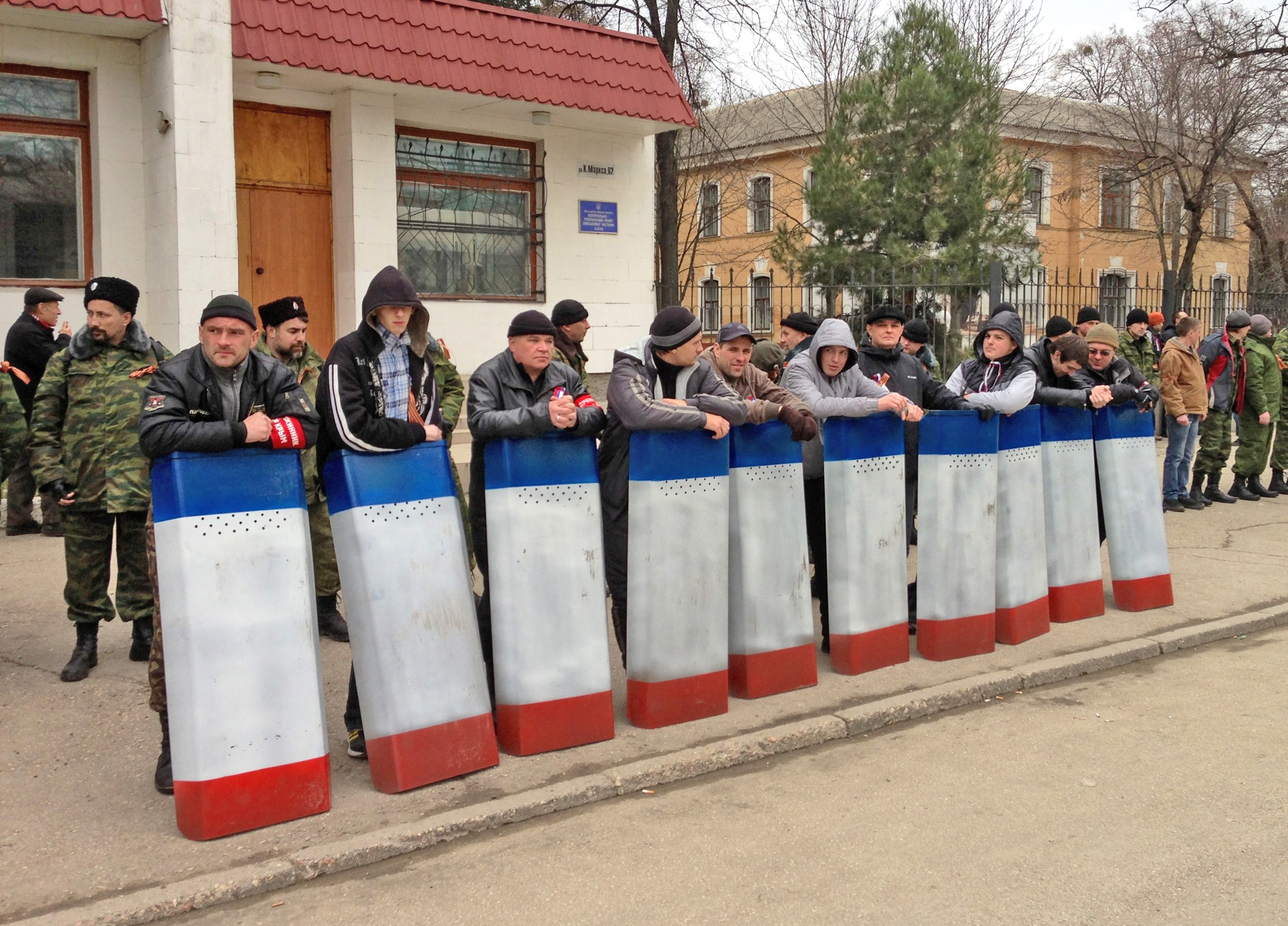 A Crimean self-defense group with shields painted as the flag of the autonomous republic, Simferopol, Ukraine, March 2, 2014. (Elizabeth Arrott/VOA)